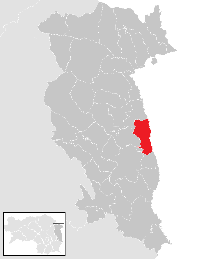 district Hartberg-Fürstenfeld